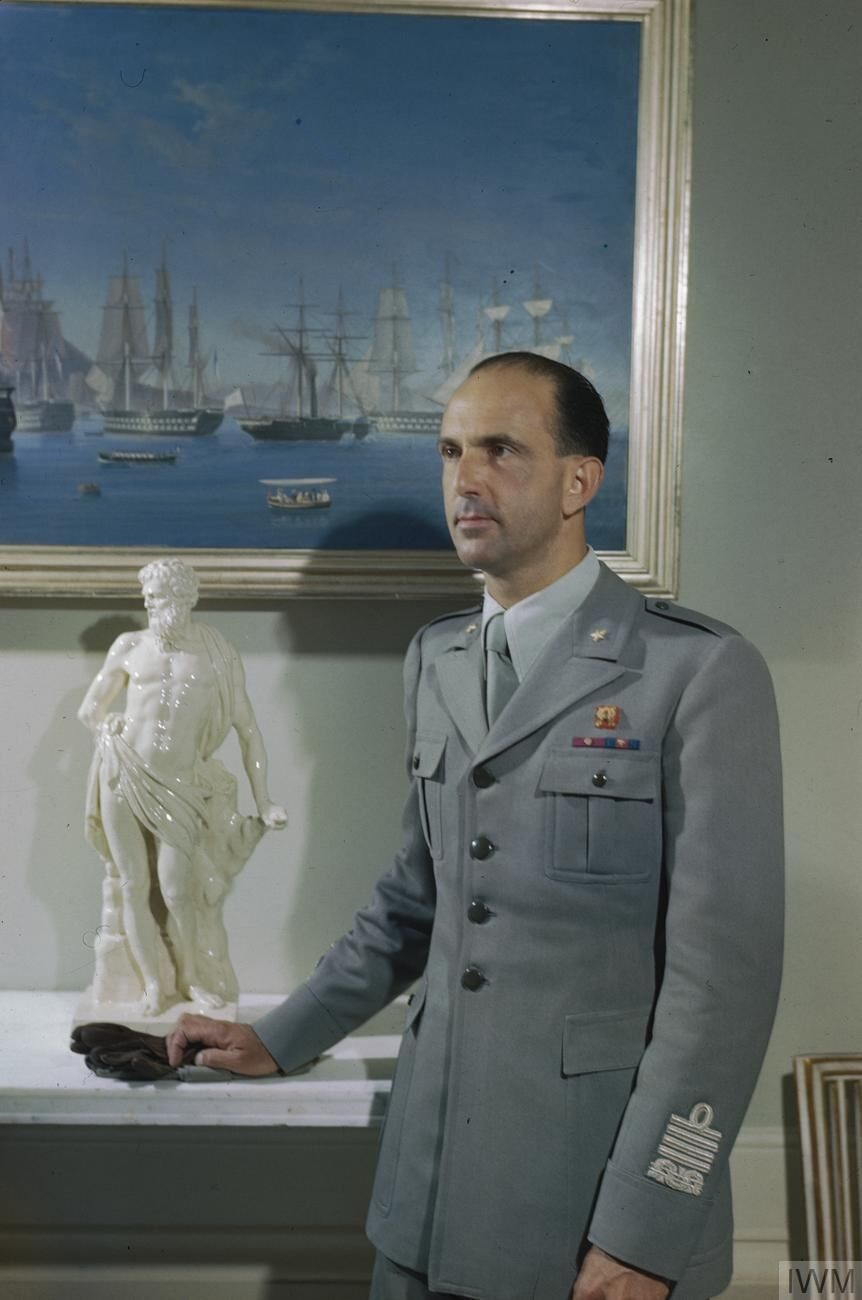 Hrh Prince Umberto of Italy, May 1944 Half length portrait of HRH Prince Umberto in his villa at Naples.